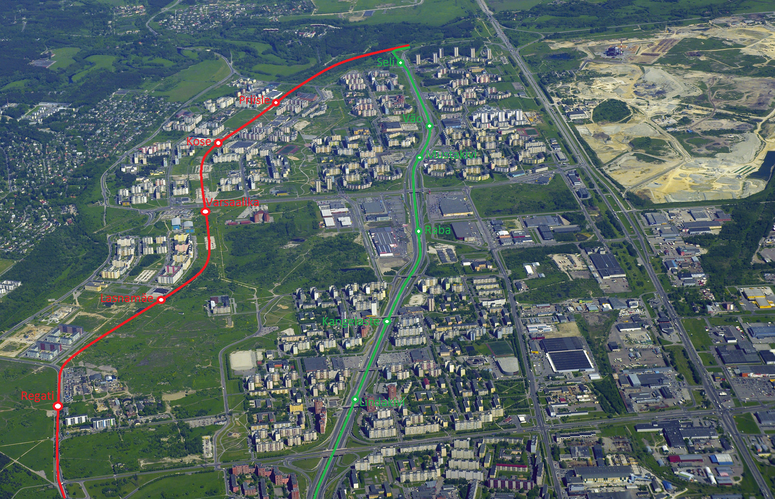 Tram routes planned in 1980's in Lasnamäe. Plan wasn't realised because of USSR collapse.